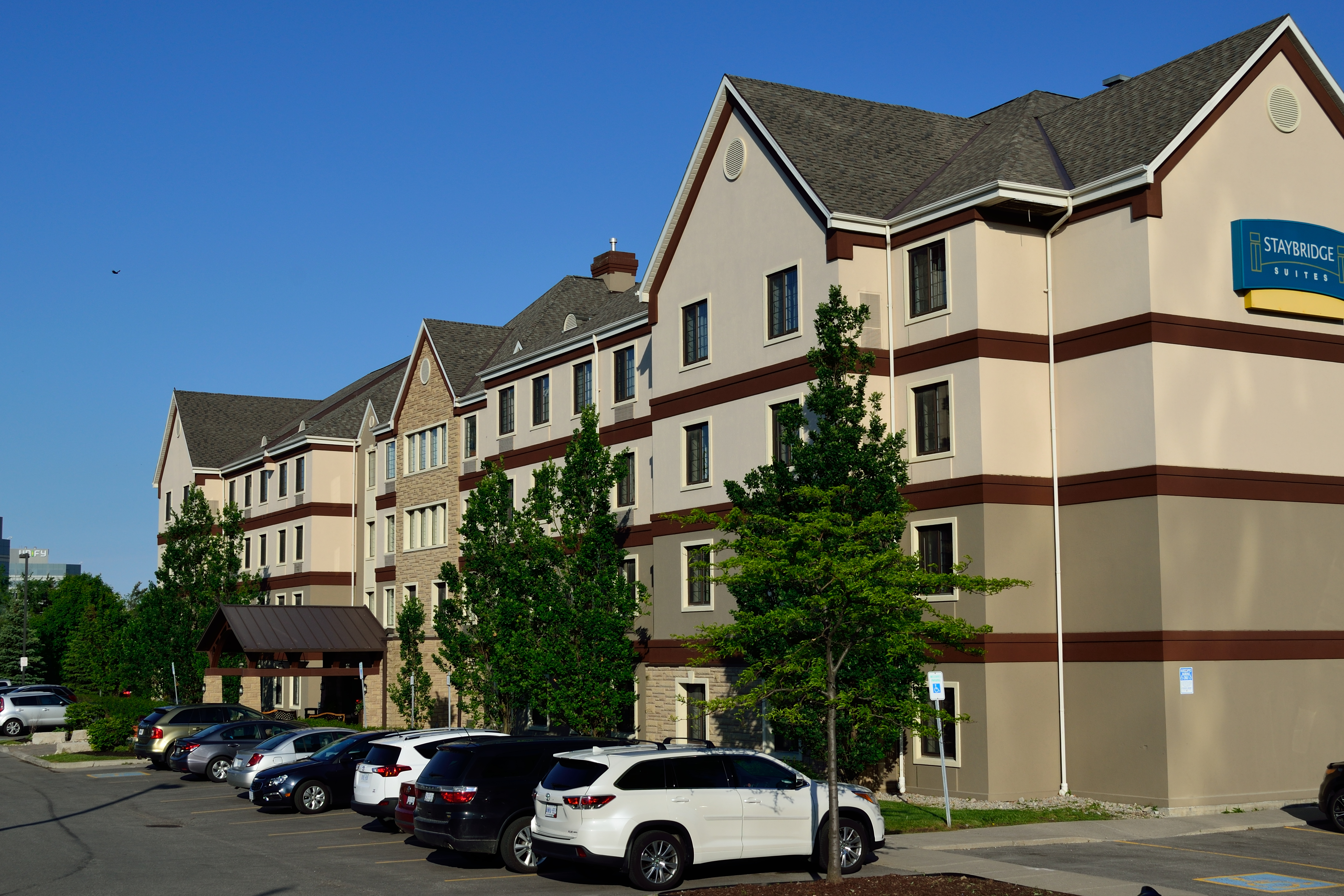 Staybridge Suites in Markham